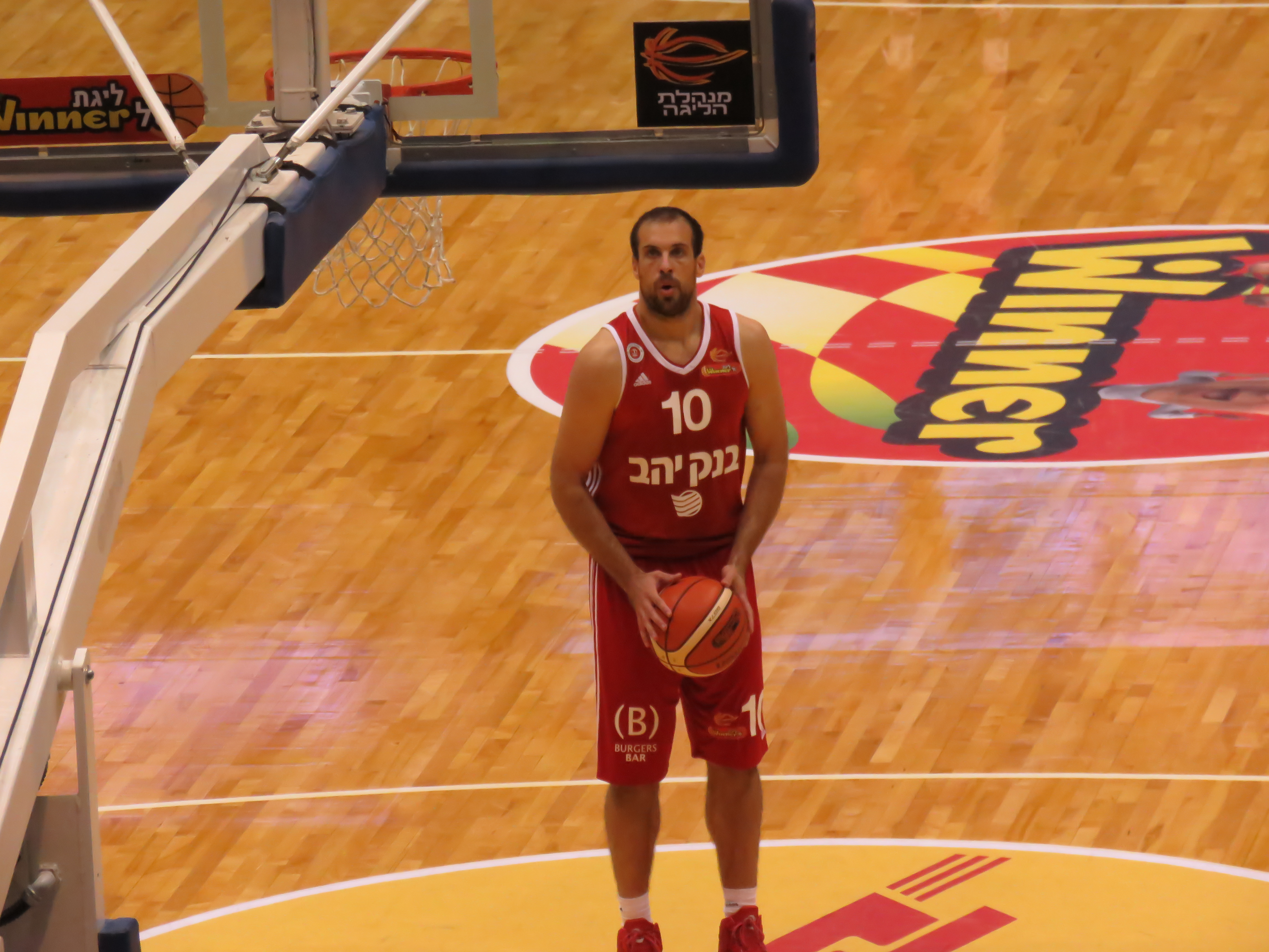 Maccabi Tel Aviv vs Hapoel Jerusalem, 25 October, 2015